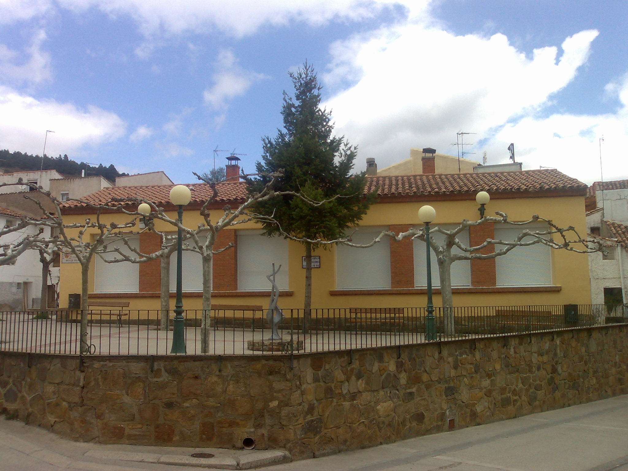 Colegio_Becquer_at_San_Martin_Rio_in_Teruel_Spain